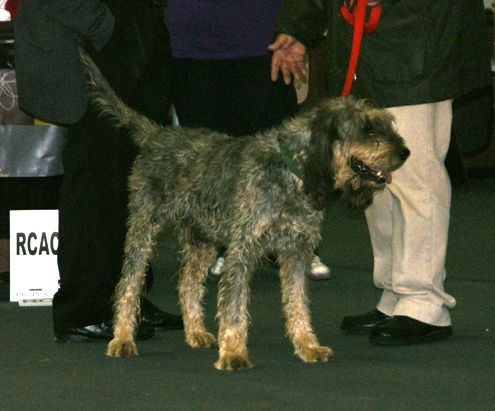 Griffon Nivernais